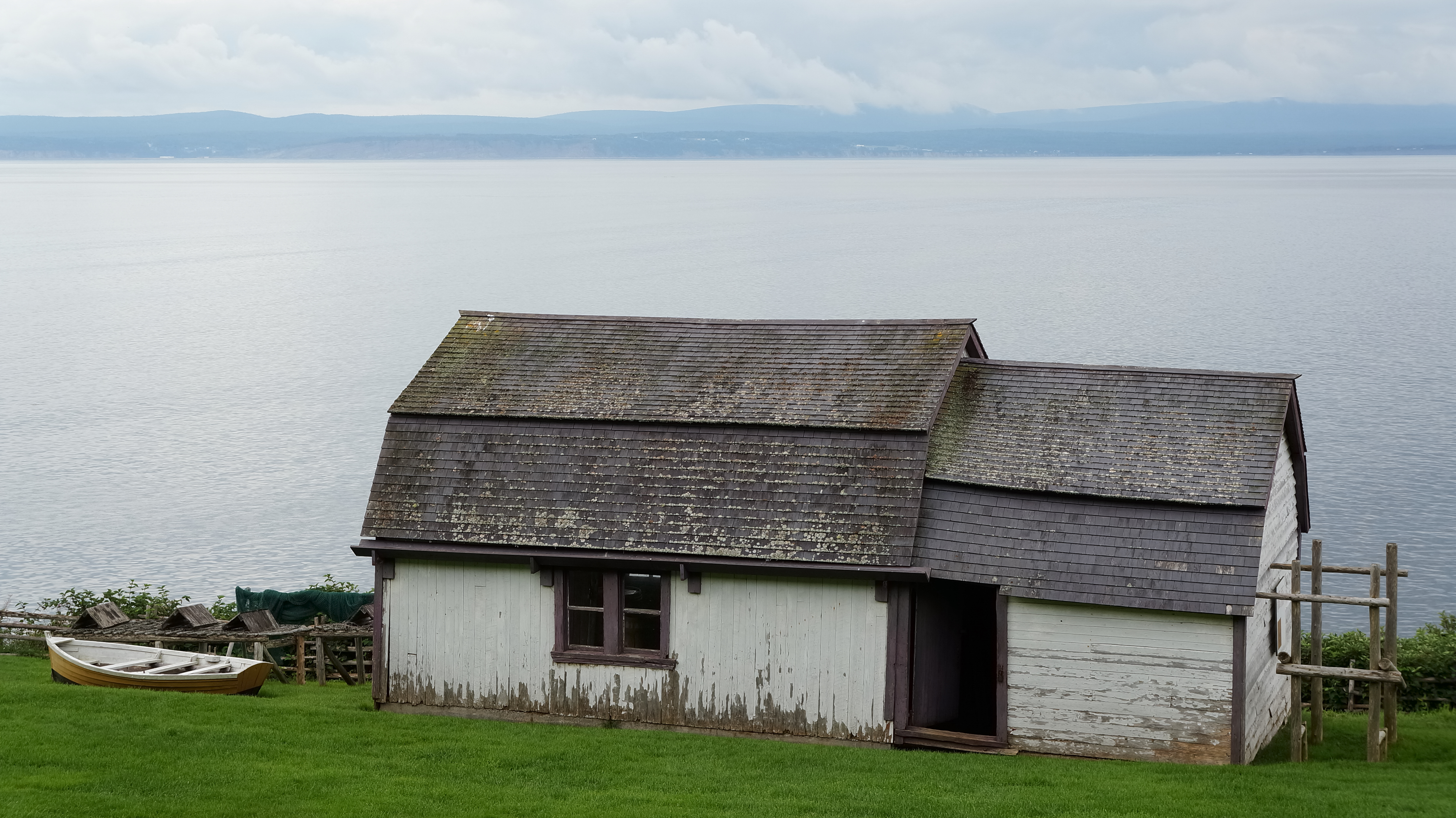 Xavier Blanchette Storage, 1888. Recognized Federal Heritage Building, I.D # 9642. Forillon National Park, Gaspe, Quebec, Canada.